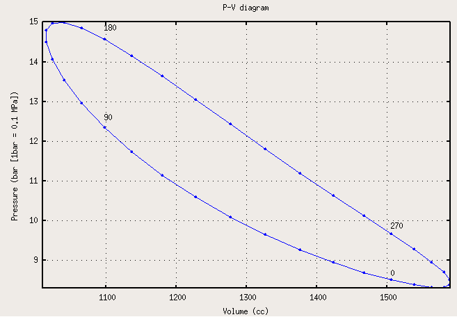 Pressure vs Volume plot for a Stirling engine, Stirling cycle simulation